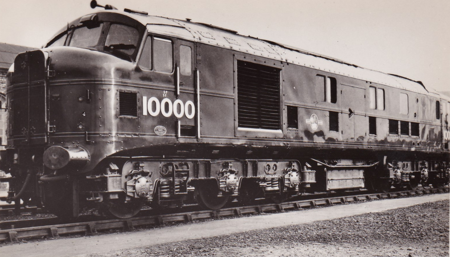 The first diesel, number 10000, which was trial run by British Railways with 10001 through Chinley